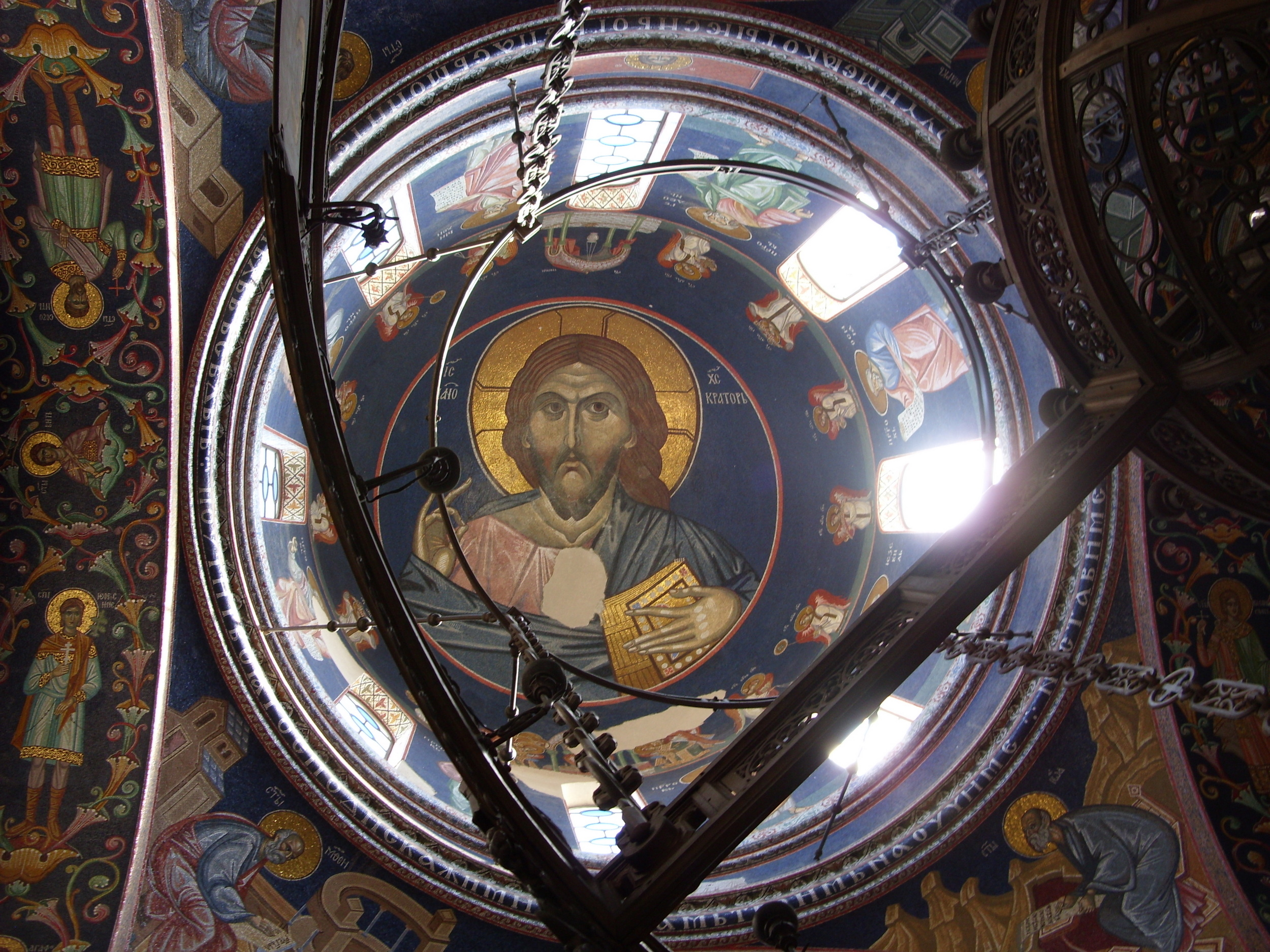 Paintings in the cupola of St. Georges church in Oplenac (Topola, Serbia). Hornjoserbsce: Wjerchowa mólba w cyrkwje swj. Jurja w Oplenacu (Topola, Serbiska).